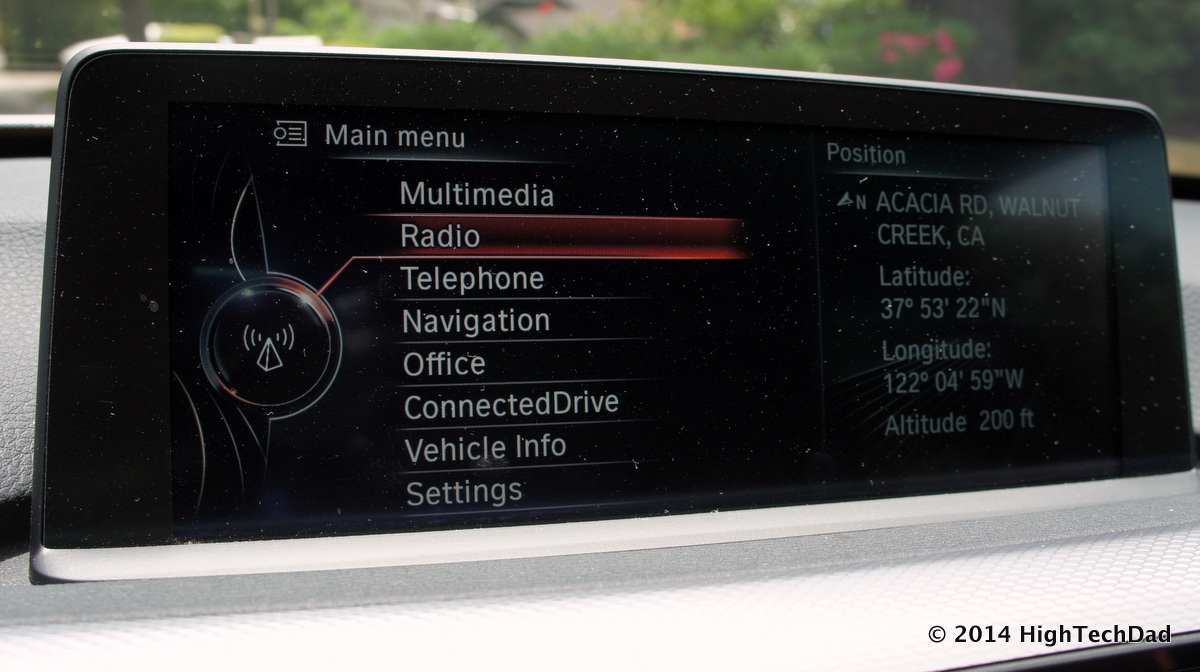 Photos from a 7-day test drive of the 2014 BMW 335i xDrive GT (Gran Tourismo). More car reviews can be found at